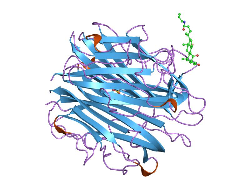 Cartoon representation of the molecular structure of protein registered with 1o91 code.